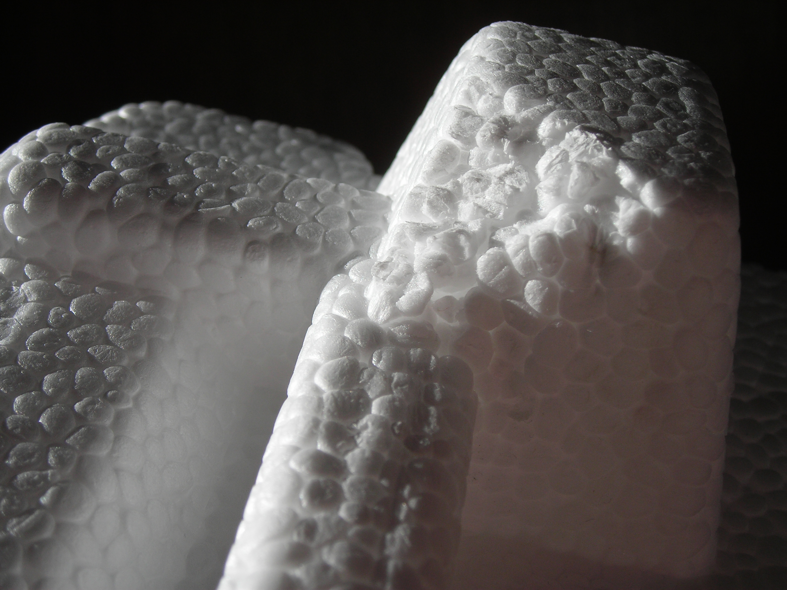 Close up of expanded polystyrene packaging